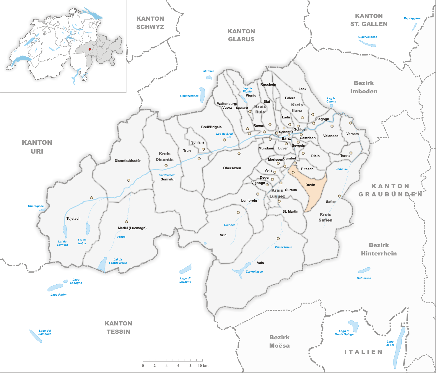 Municipality Duvin